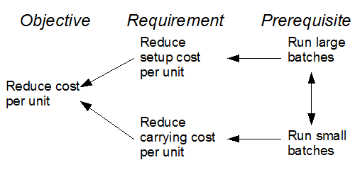 Diagram of batch-size dilemma that leads to calculation of EOQ. Based on example described in The Haystack Syndrome-ISBN:9780884271840.